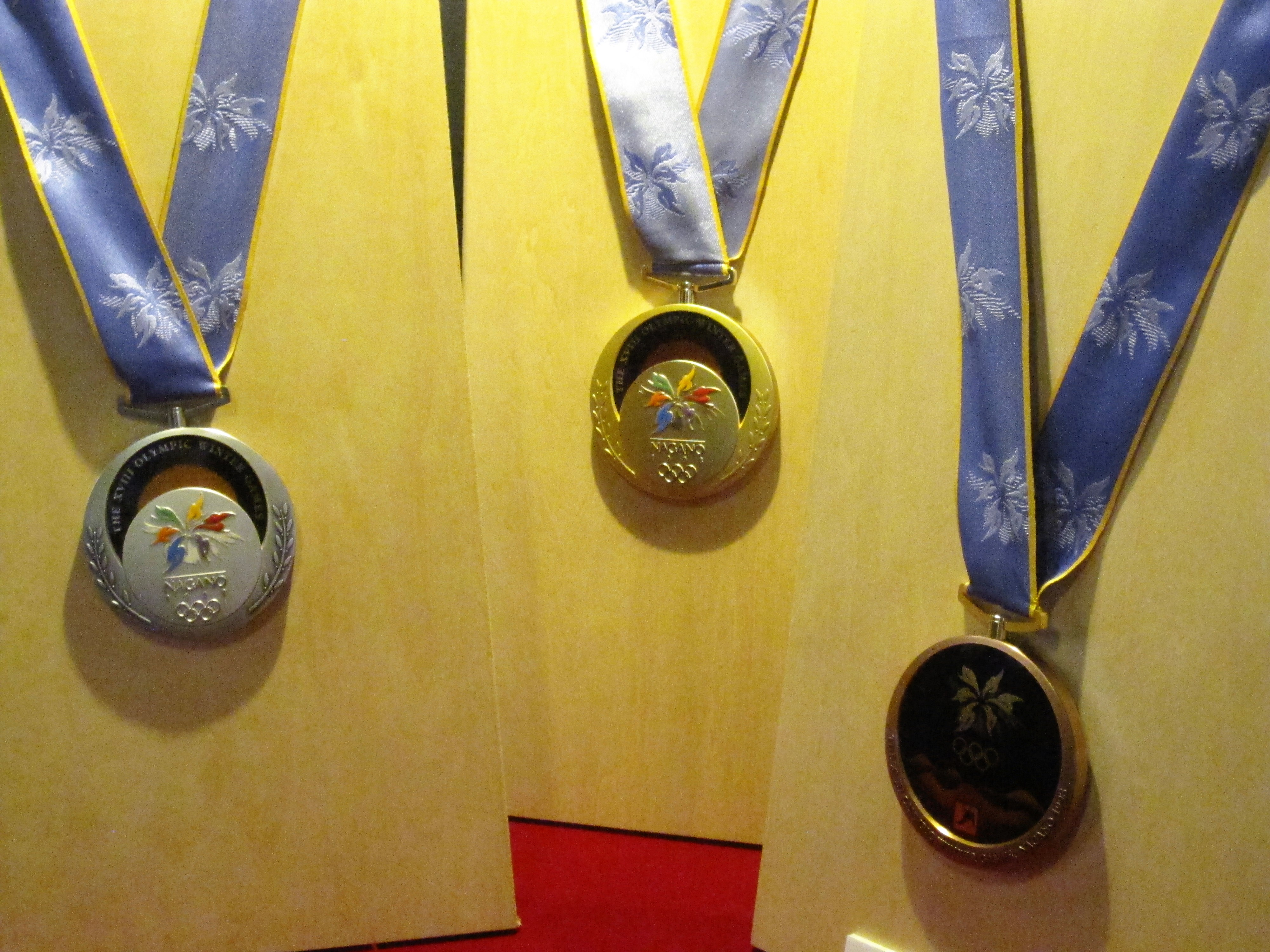 1998 Winter Olympics medals, displayed in Japan Mint Saitama Museum.